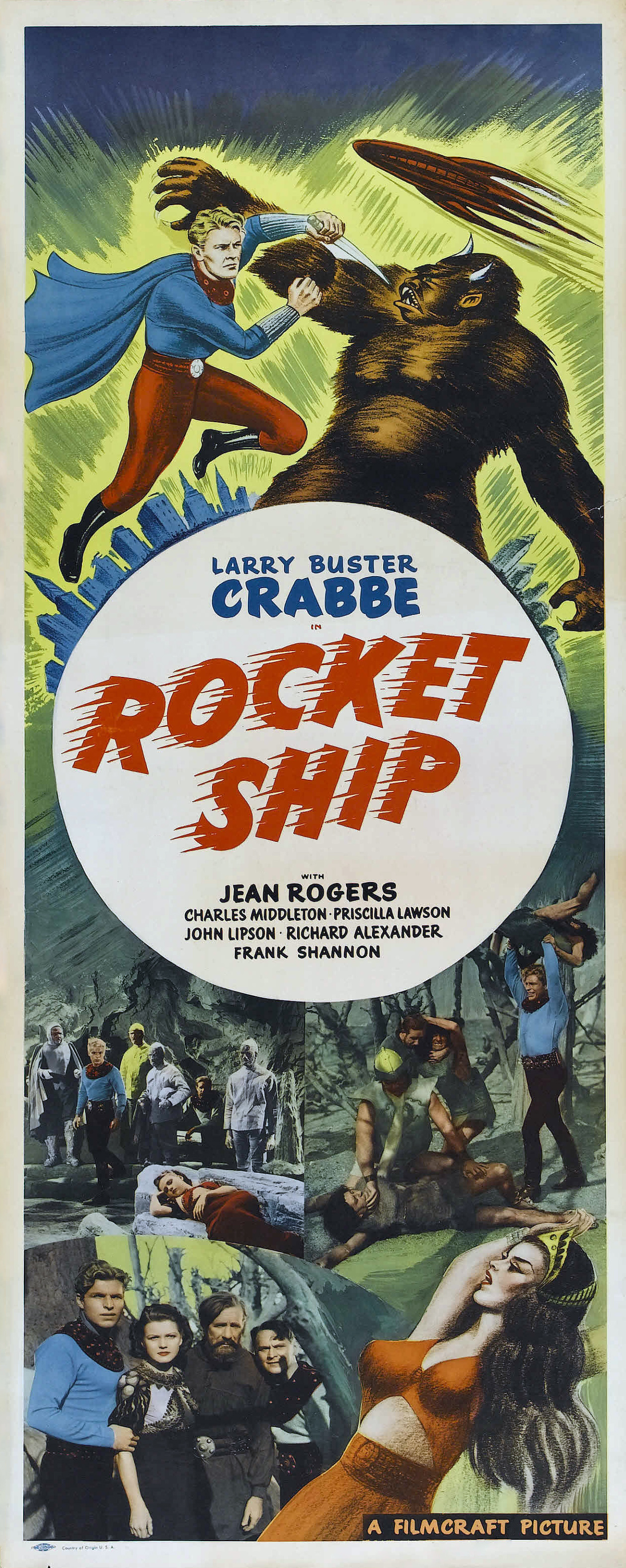 Film poster for the 13th chapter of the Flash Gordon serial